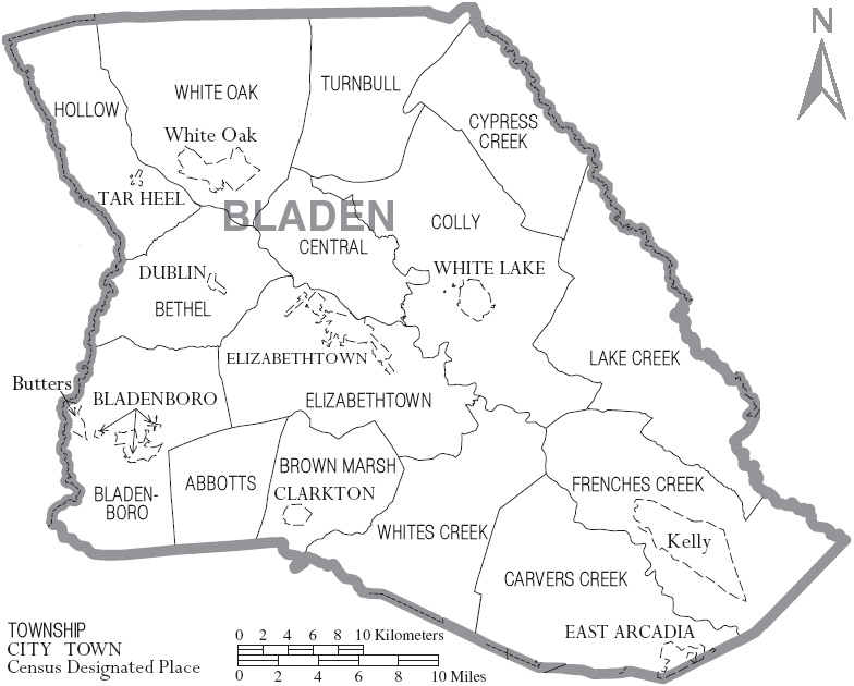 Map of Bladen County, North Carolina, United States with township and municipal boundaries